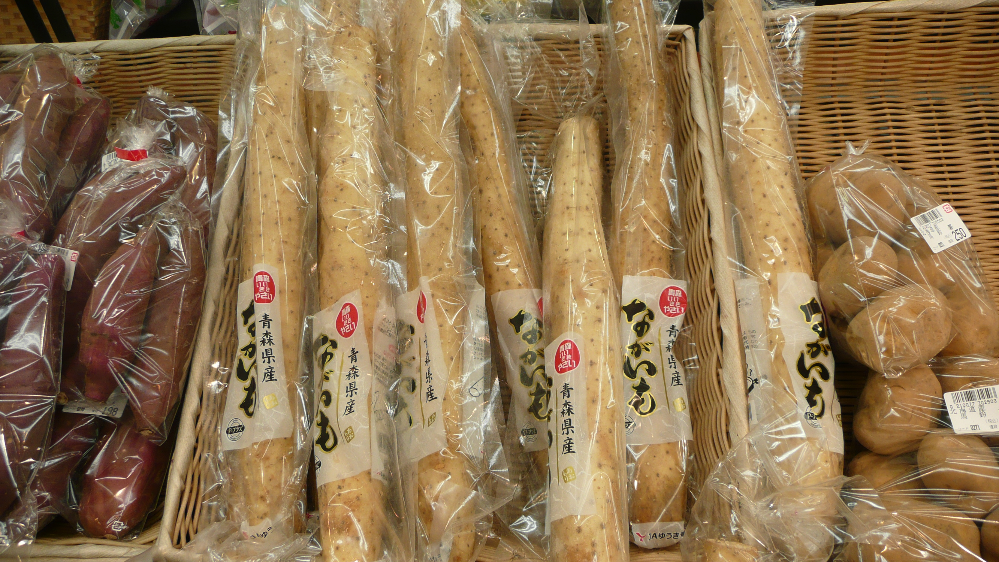 Japanese Yams - Naga imo (produced in Aomori) - in a shop im Hamamatsu, Japan